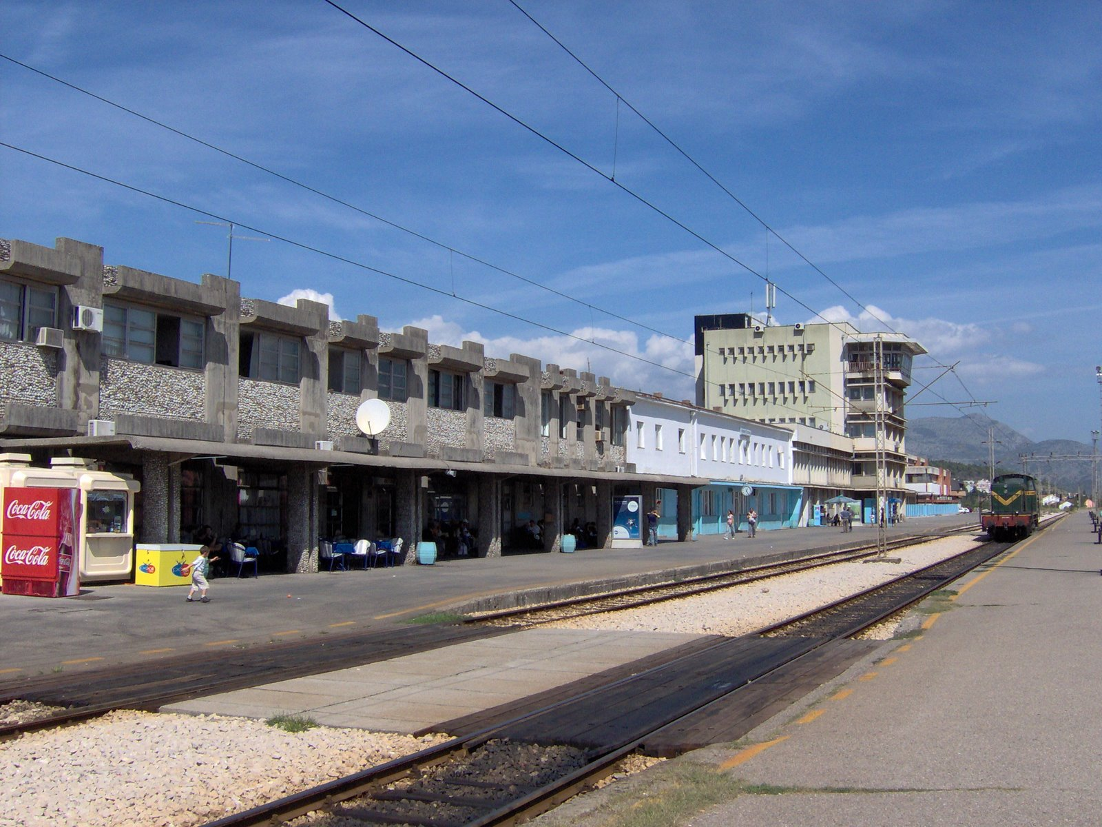 Podgorica Main train station.